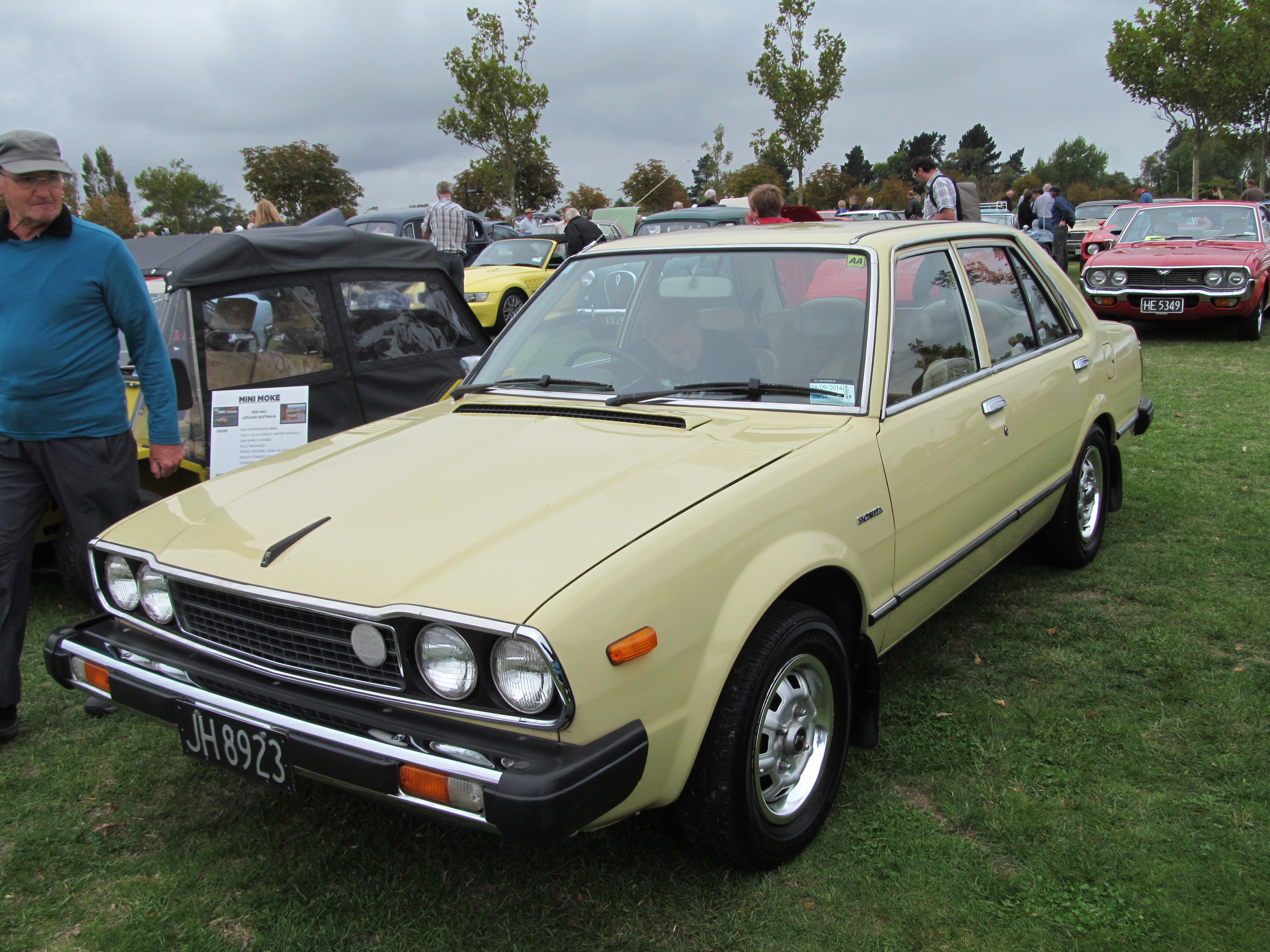 It was really great to see a Mk1 Accord at a classic car show, because it means they are finally being appreciated as the genuine Japanese classic they are. This one had a younger owner as you can see, but its condition would suggest it was in elderly or long-term ownership until quite recently.